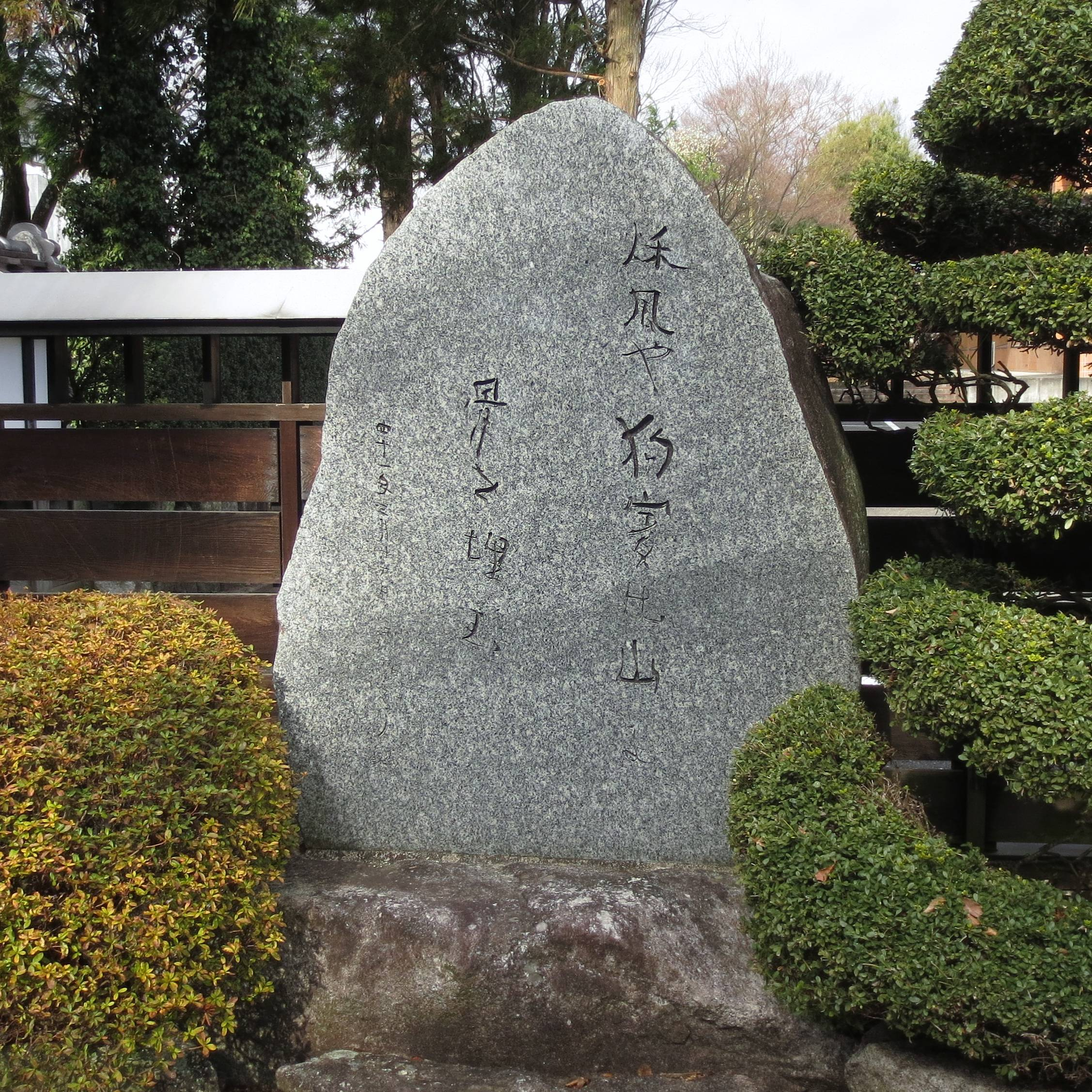 Kōnosuke Hinatsu Memorial Hall.